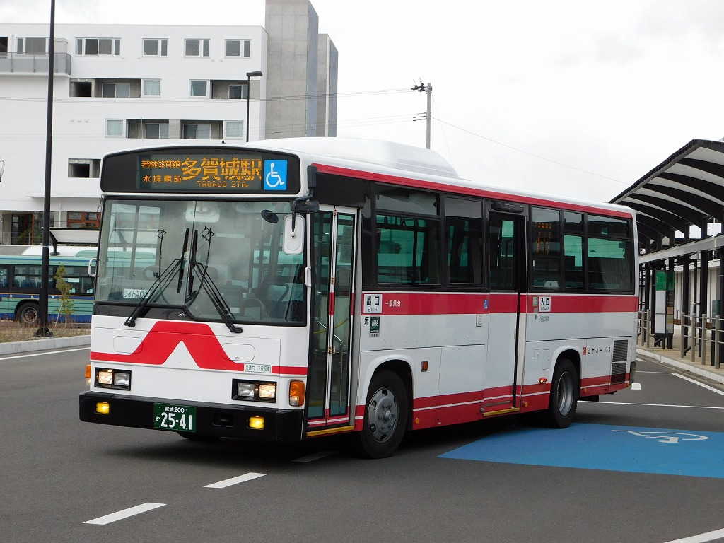 Miyakoh bus Hino Rainbow RJ (KK-RJ1JJHK,from Meitetsu bus)